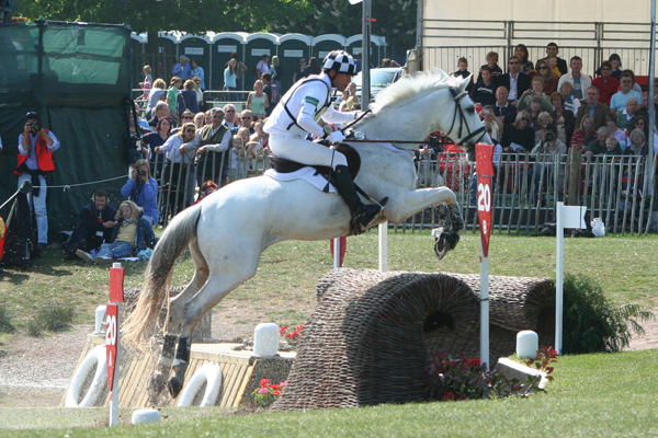 Hinrich Romeike (GER) tackling the lake at Badminton